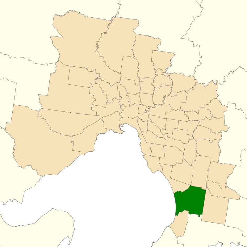 Location of the Victorian electoral district of Carrum (dark green) in the Greater Melbourne area.